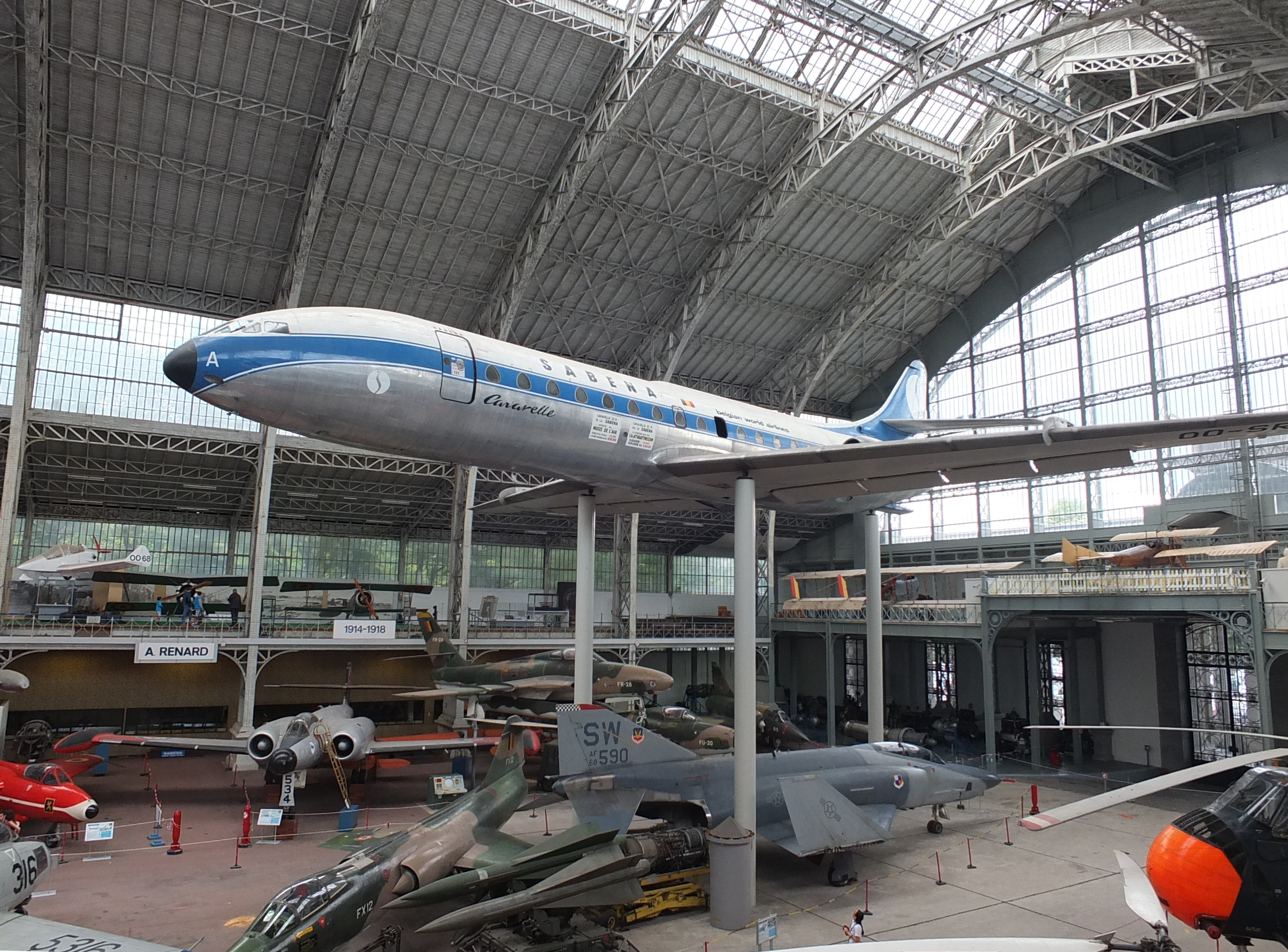 A view of the aerospace hall in the Royal Military Museum in the Jubelpark, Brussels.